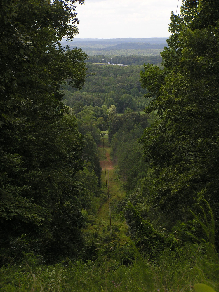 view from Woodall Mountain